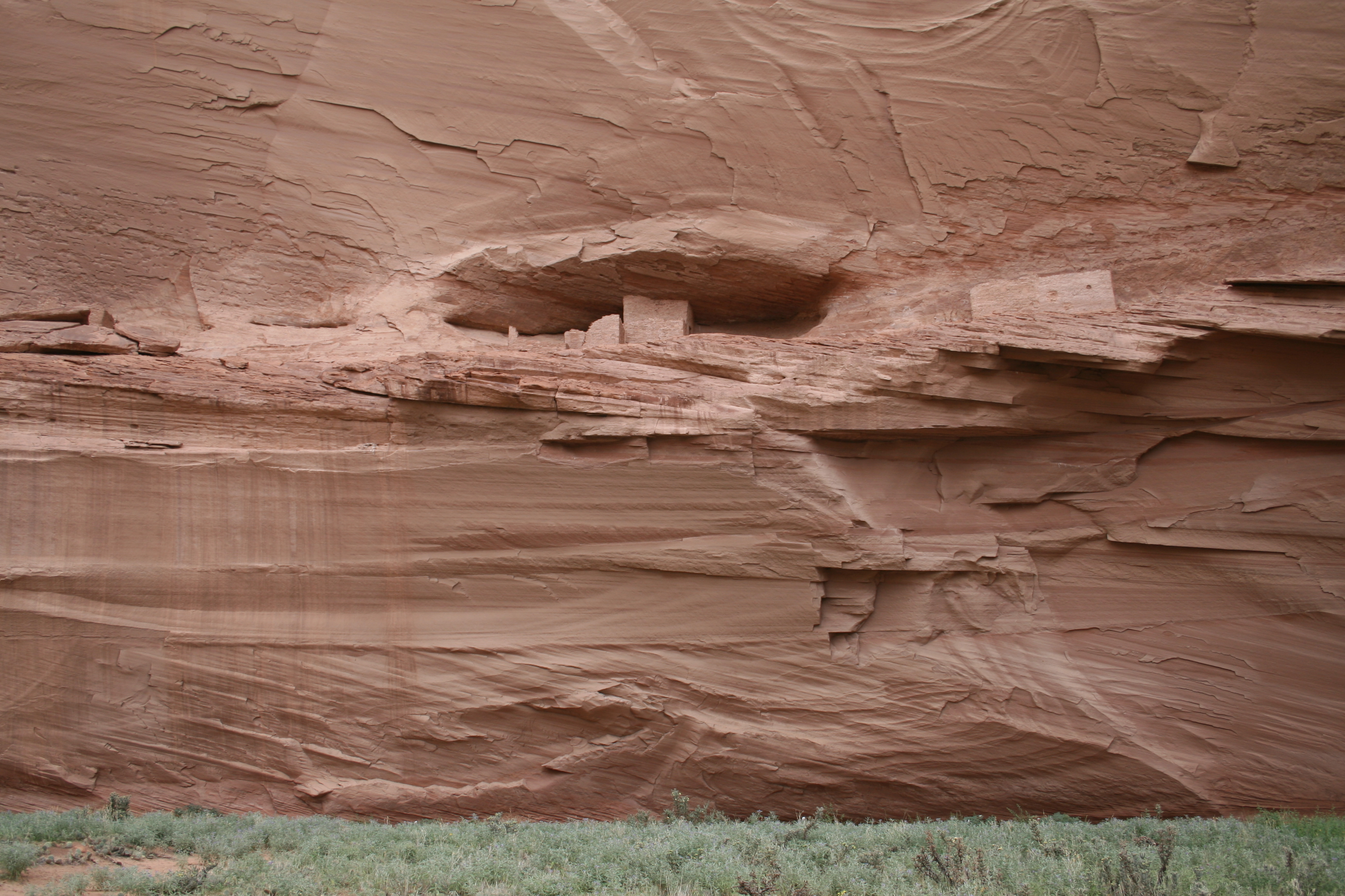 Canyon de Chelly National Monument, Arizona Ledge ruin.